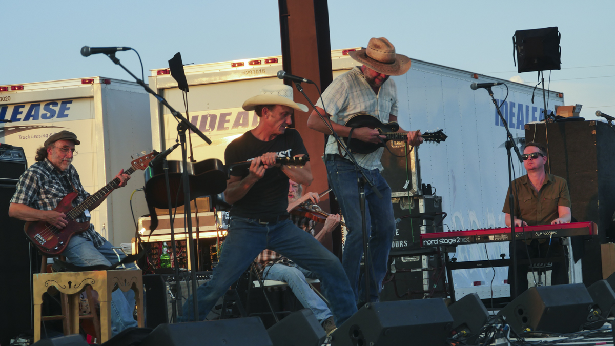 Woodyfest 2018